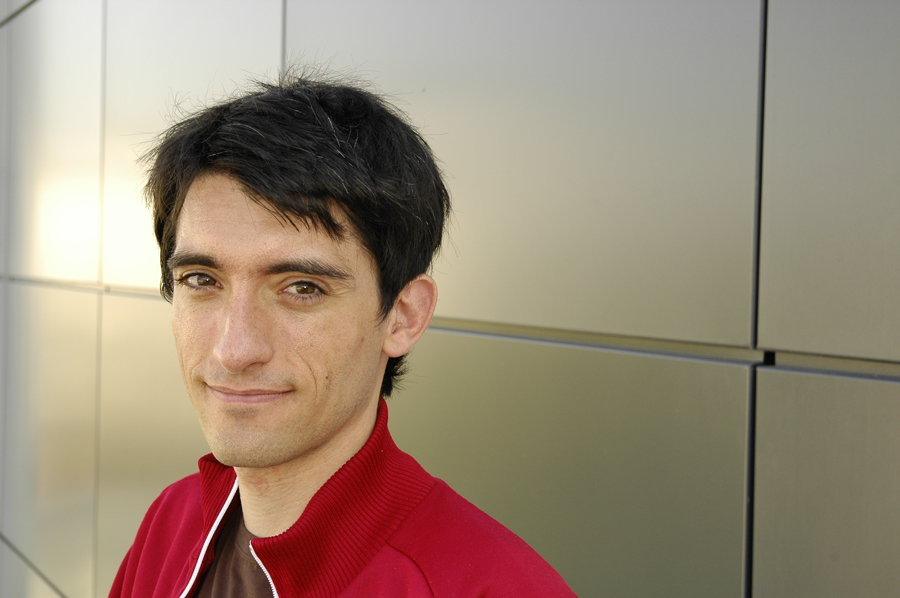 French DJ and designer Raphaël Marionneau